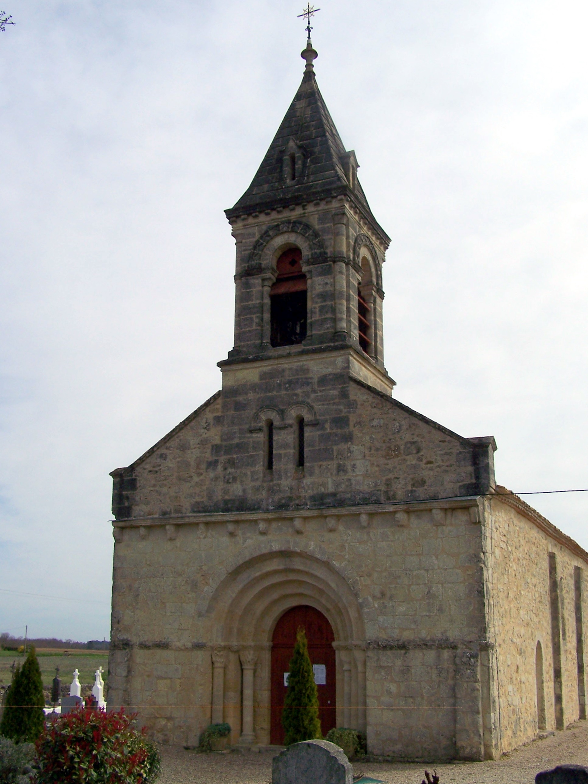 Church of Lados (Gironde, France)